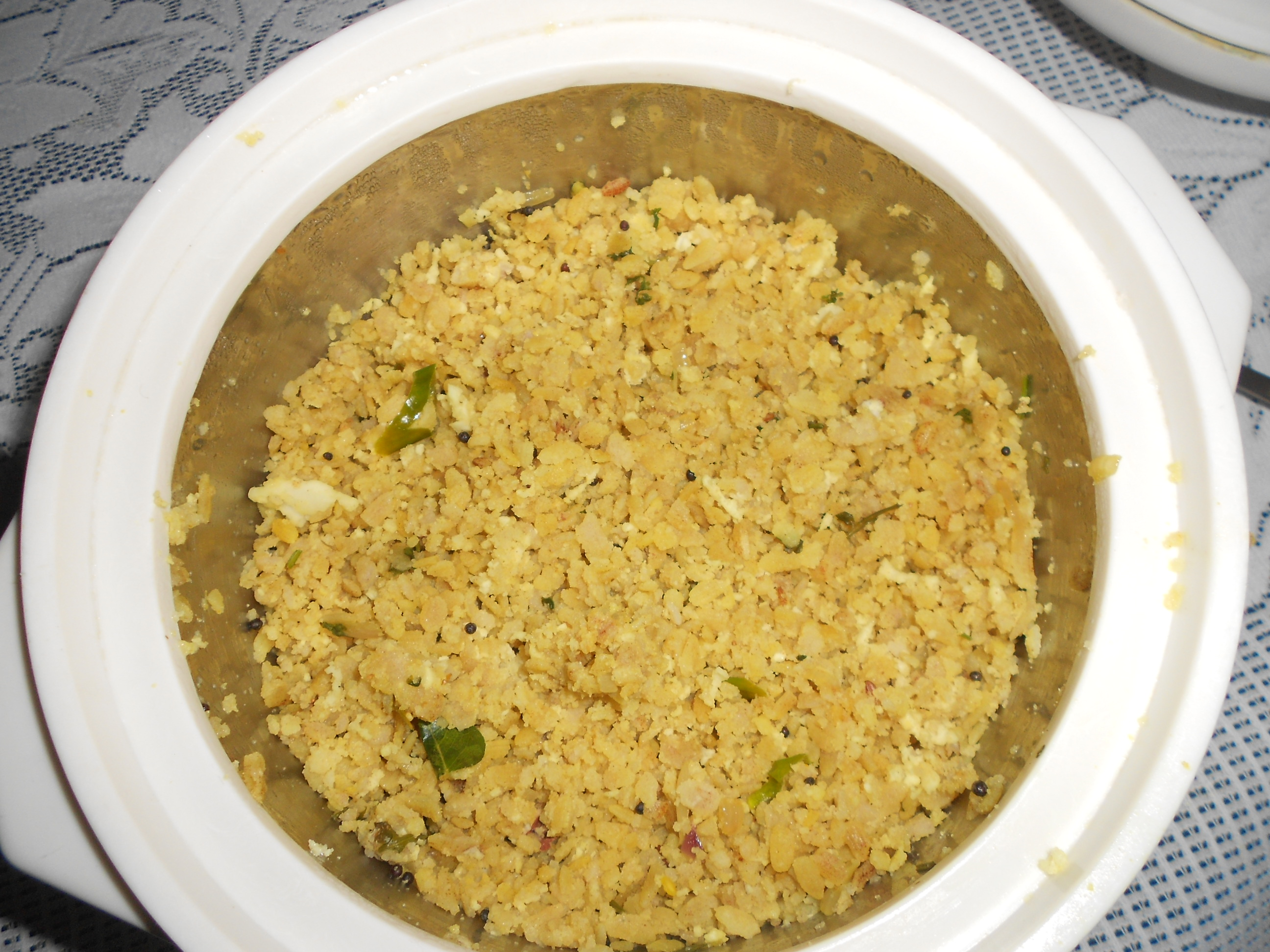 Made out of beaten paddy